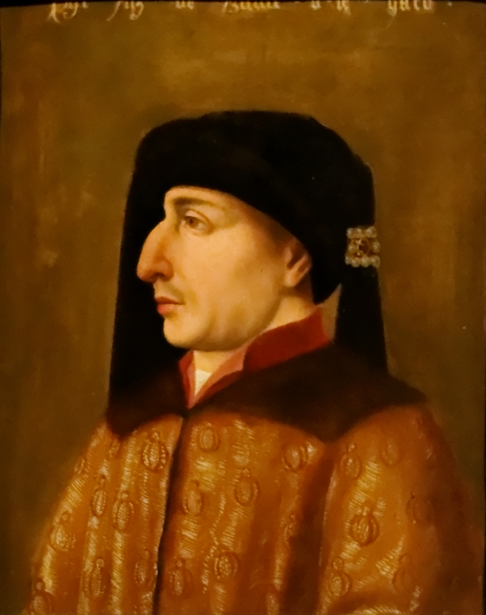 Philip II, Duke of Burgundy. c 1500. Vienna (Austria)